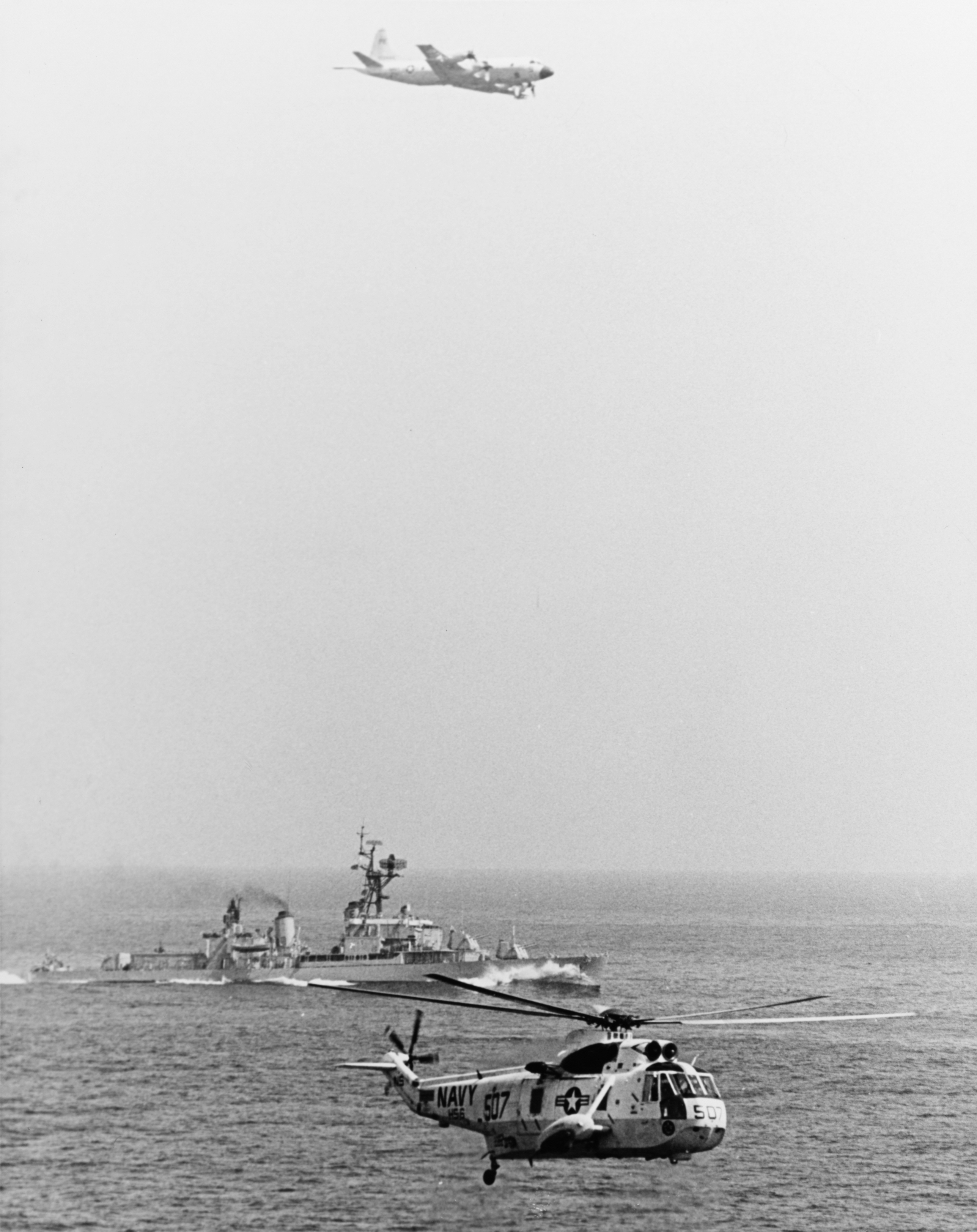 A U.S. Navy Lockheed P-3B Orion of Patrol Squadron 19 (VP-19) "Big Red", the destroyer USS Buck (DD-761), and a Sikorsky SH-3A Sea King of Helicopter Anti-Submarine Squadron 6 (HS-6) "Indians" participate in an anti-submarine warfare demonstration for the 40th Joint Civilian Orientation Conference off the California coast on 20 April 1970. This conference was held to provide an opportunity for selected civilian leaders to visit major military installations.